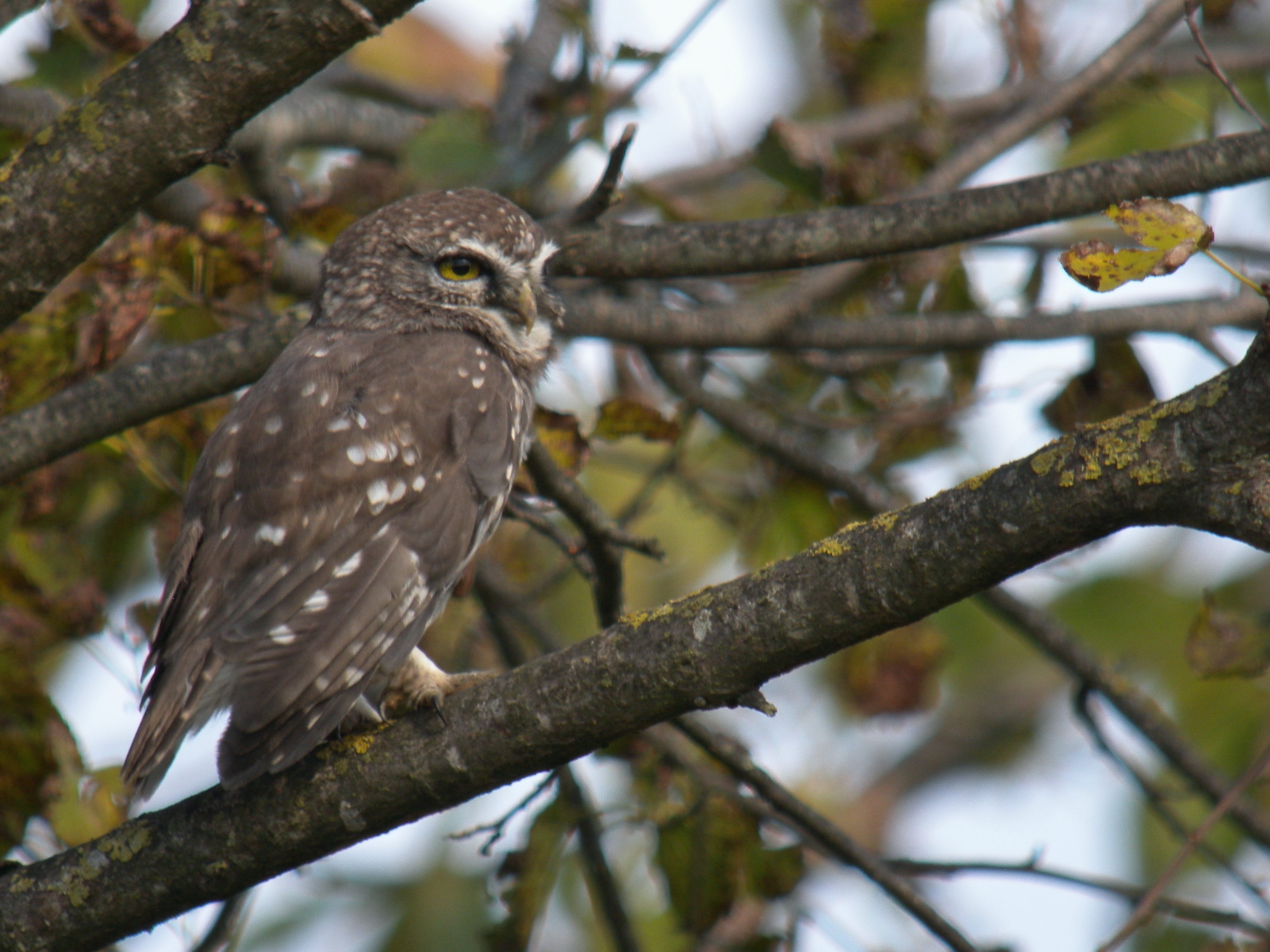 Little Owl Athene noctua noctua hunting in full daylight in the village of Ambula, in southeast Montenegro. We saw it catching several large green bush crickets in the meadows around the village.